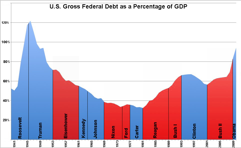 This is a graph of U.S. gross federal government debt from 1940 to 2010, as a percentage of GDP, broken down by presidential terms. The data is from the U.S. Office of Management and Budget ( Replaced by File:US_Federal_Debt_as_Percent_of_GDP_by_President.png